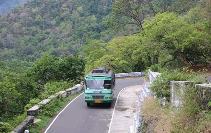 Bus service at kolli hills